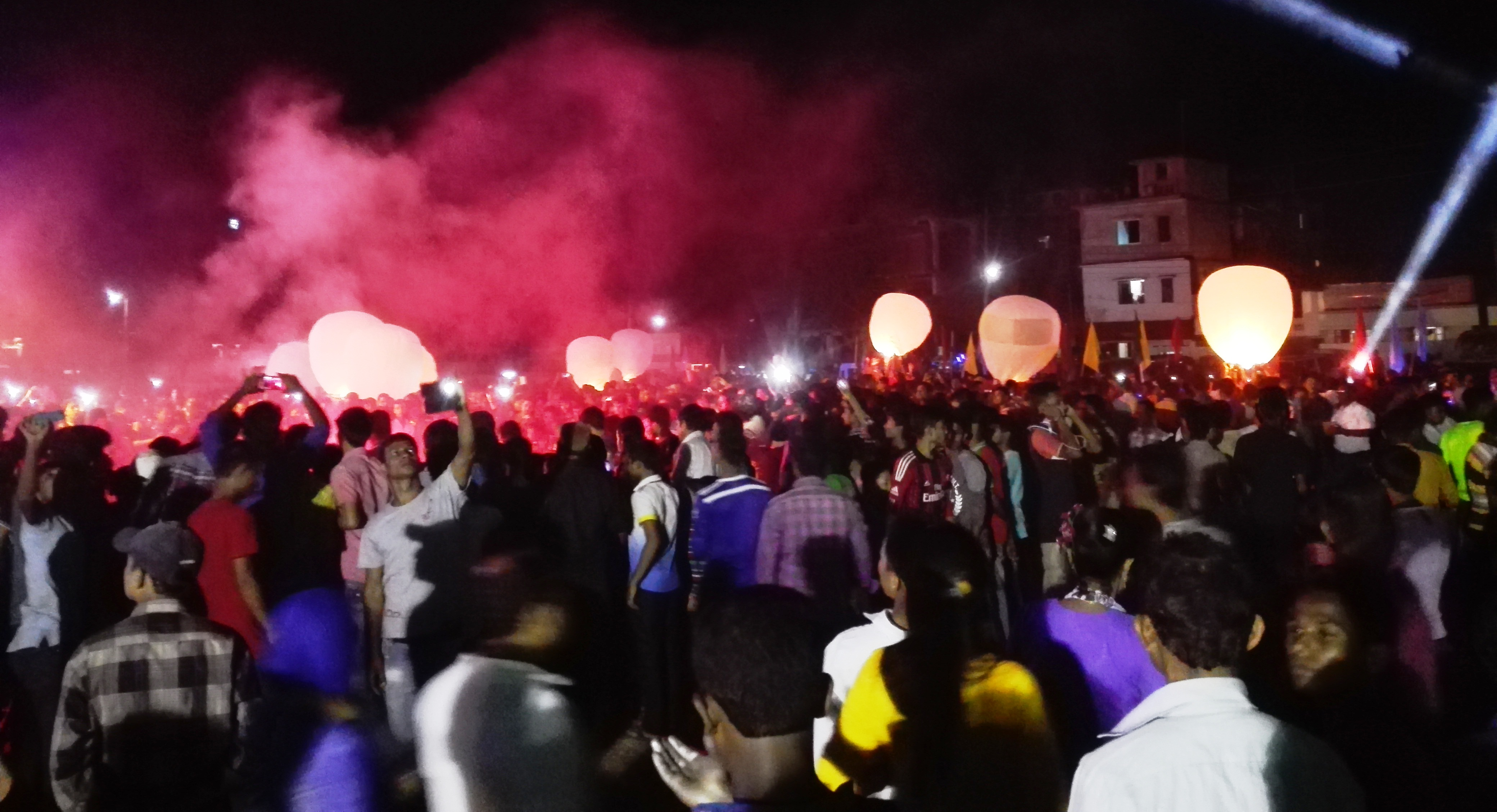 wangpoye festival, bandarban